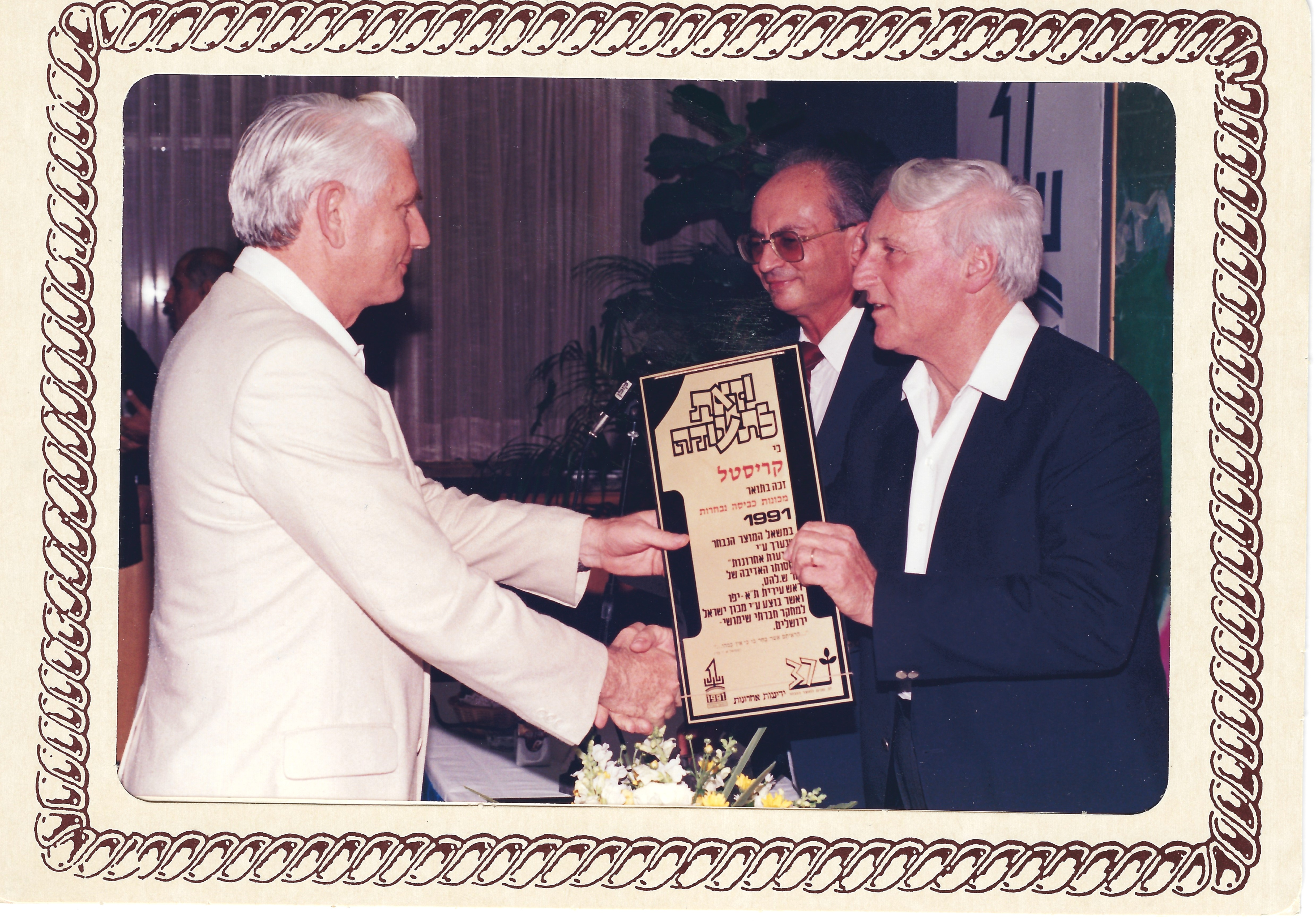 Zvi Plada